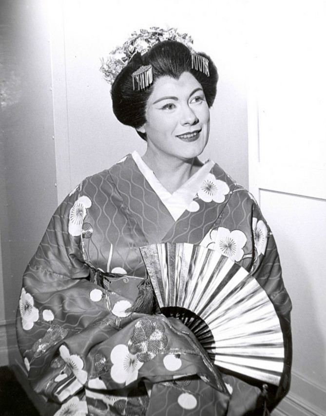 Photo of Renata Tebaldi as Madame Butterfly from an appearance on the television program The Bell Telephone Hour.